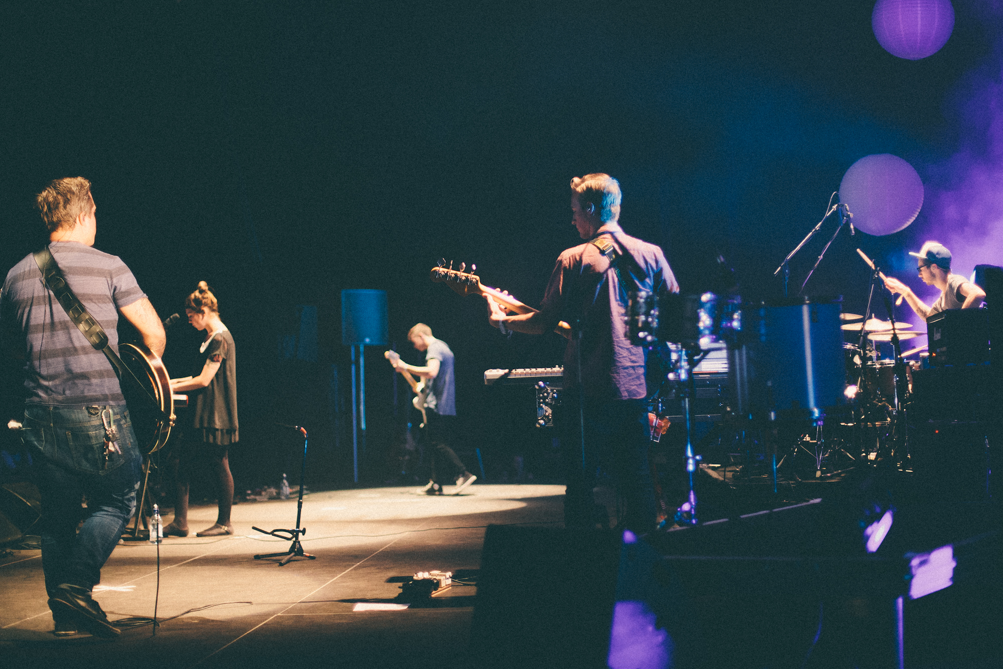 The Ember Days playing deluxe stage at Parachute Festival in 2013.